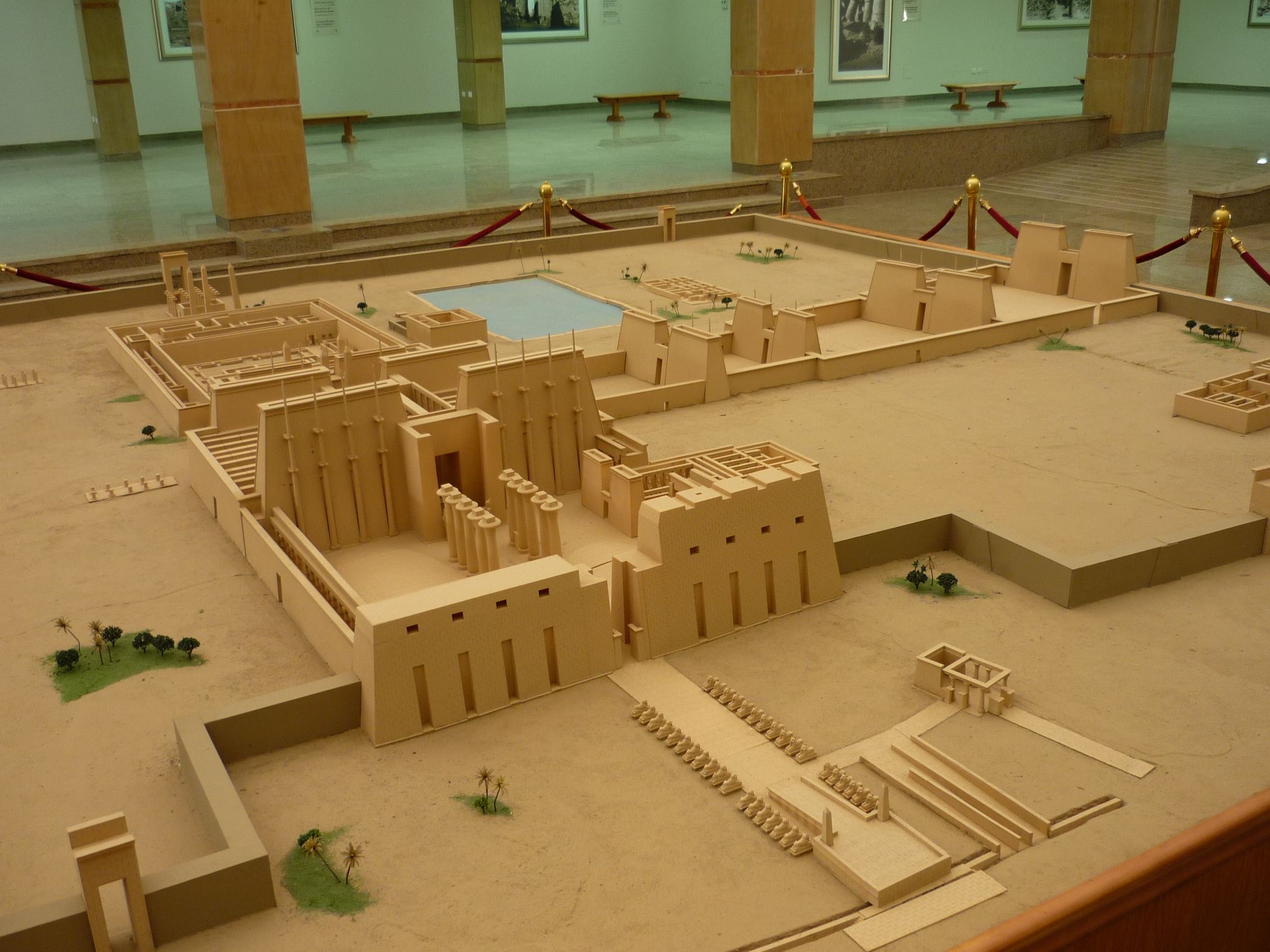 Model of Karnak temple of Amun-Ra.